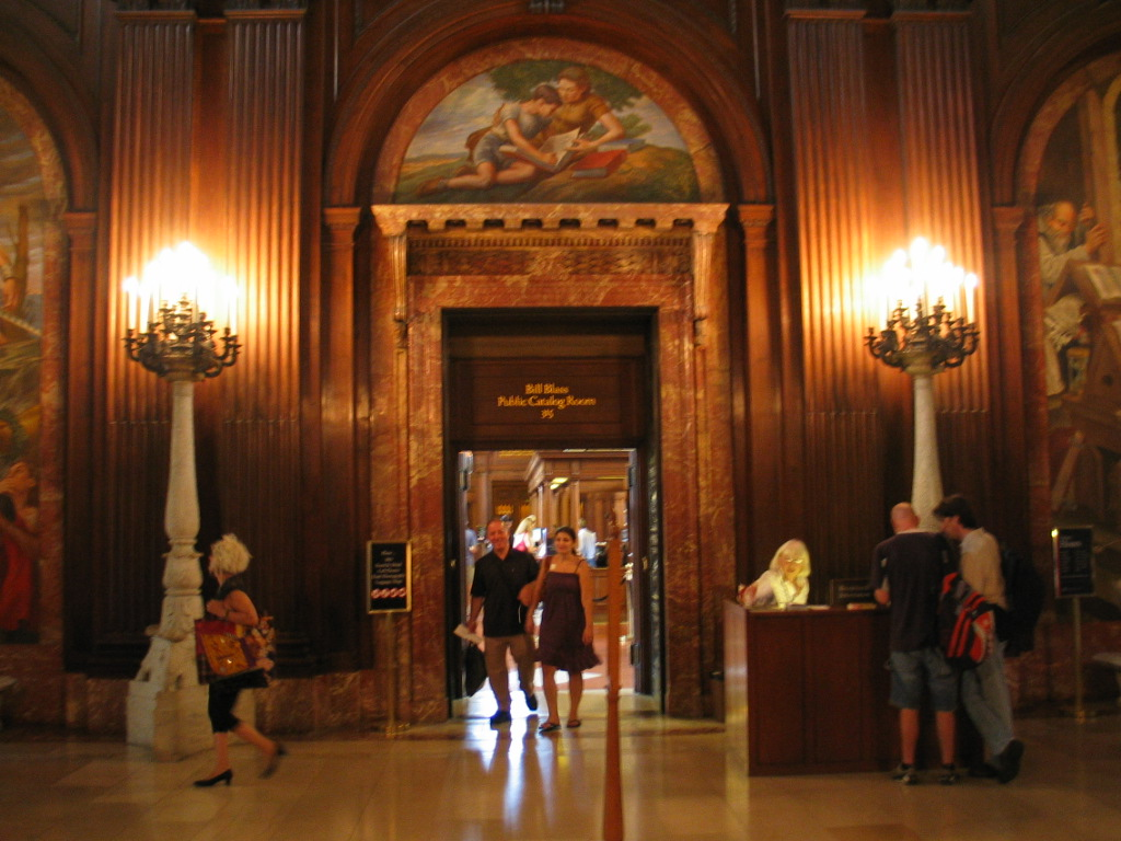 The catalog room of the NYPL